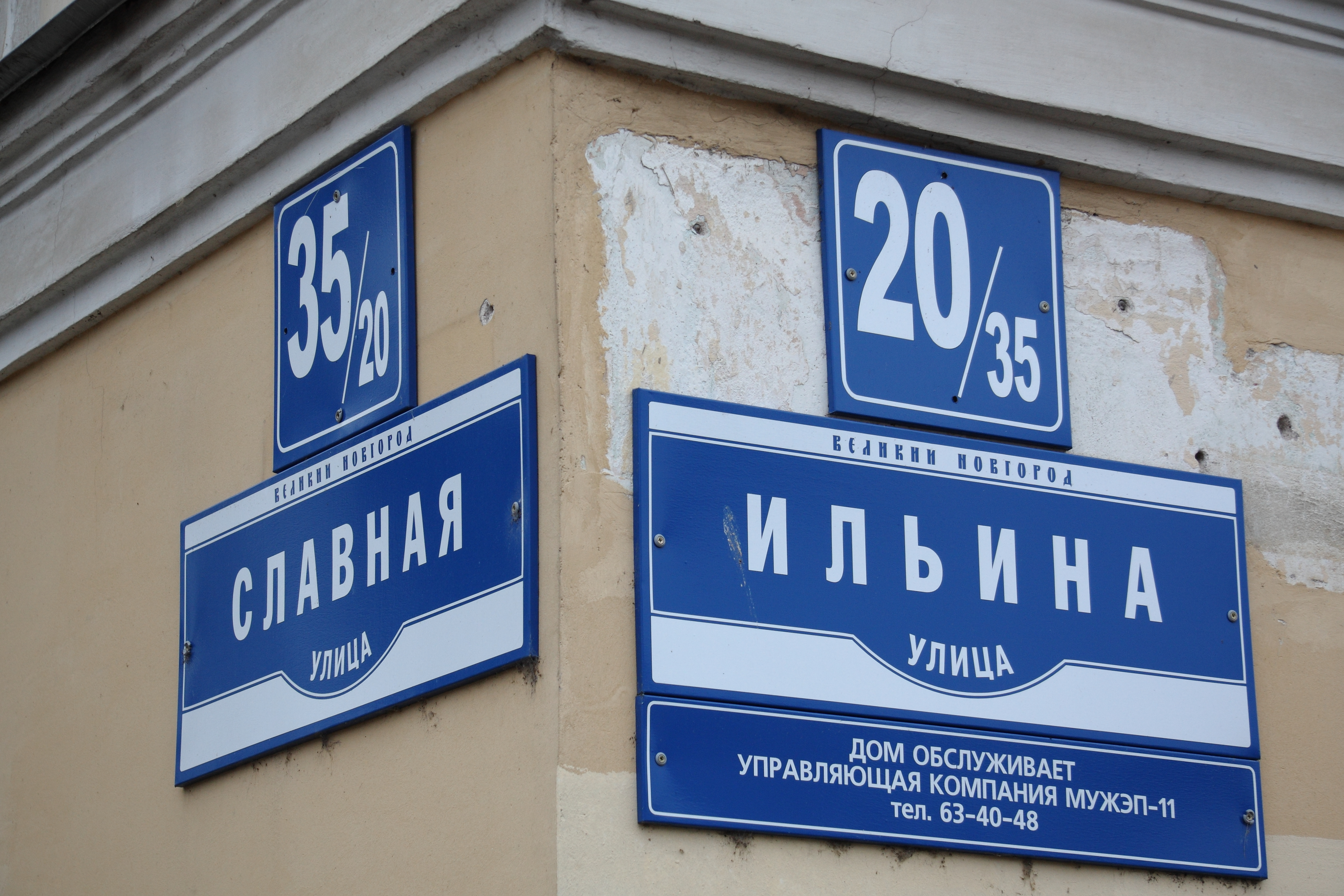 House number in Velikiy Novgorod, Russia. Slavnaya street to the left and Ilyina street to the right